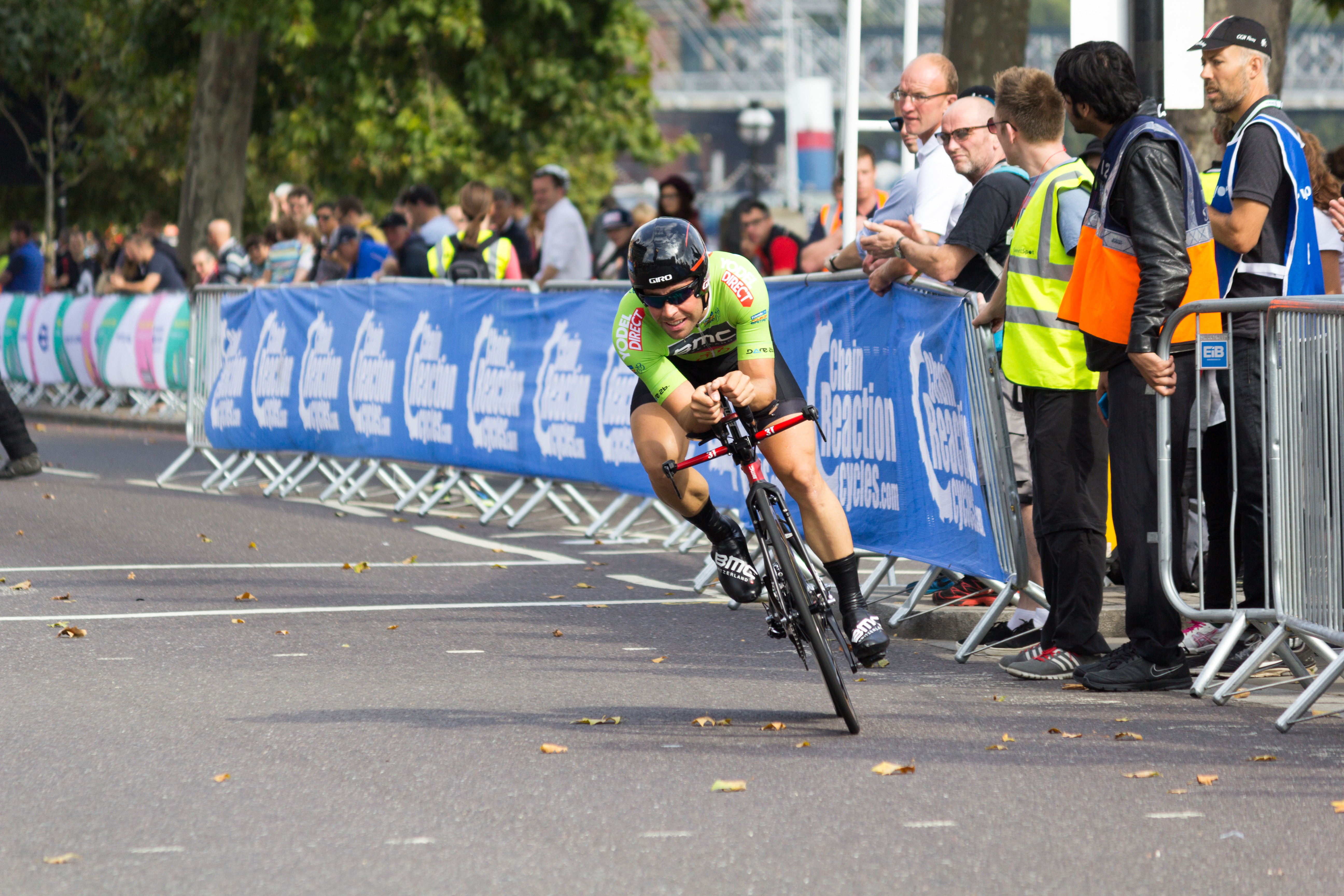 Tour of Britain 2014 stage 8a - London time trial